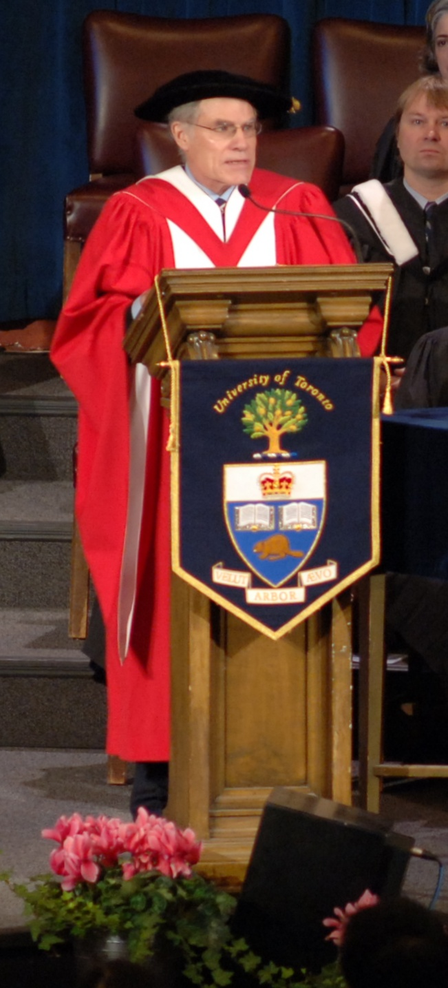 Bruce Kidd, Dean, giving the convocation speech at University of Toronto